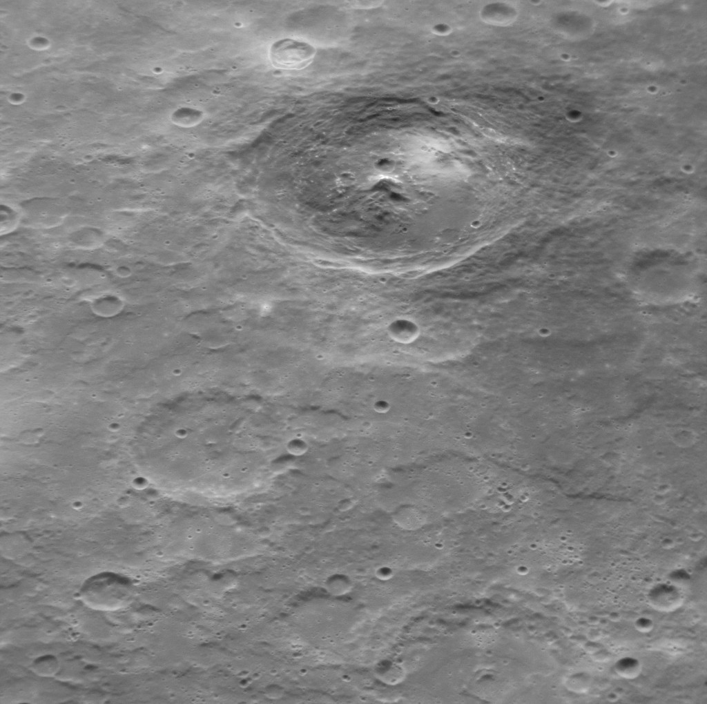 Oblique view of Grainger crater on Mercury. MESSENGER Narrow Angle Camera. North is at upper left. Emission Angle: 46.2 Incidence Angle: 48.5 Latitude: -46.2 Longitude: 103.3 Phase Angle: 94.7